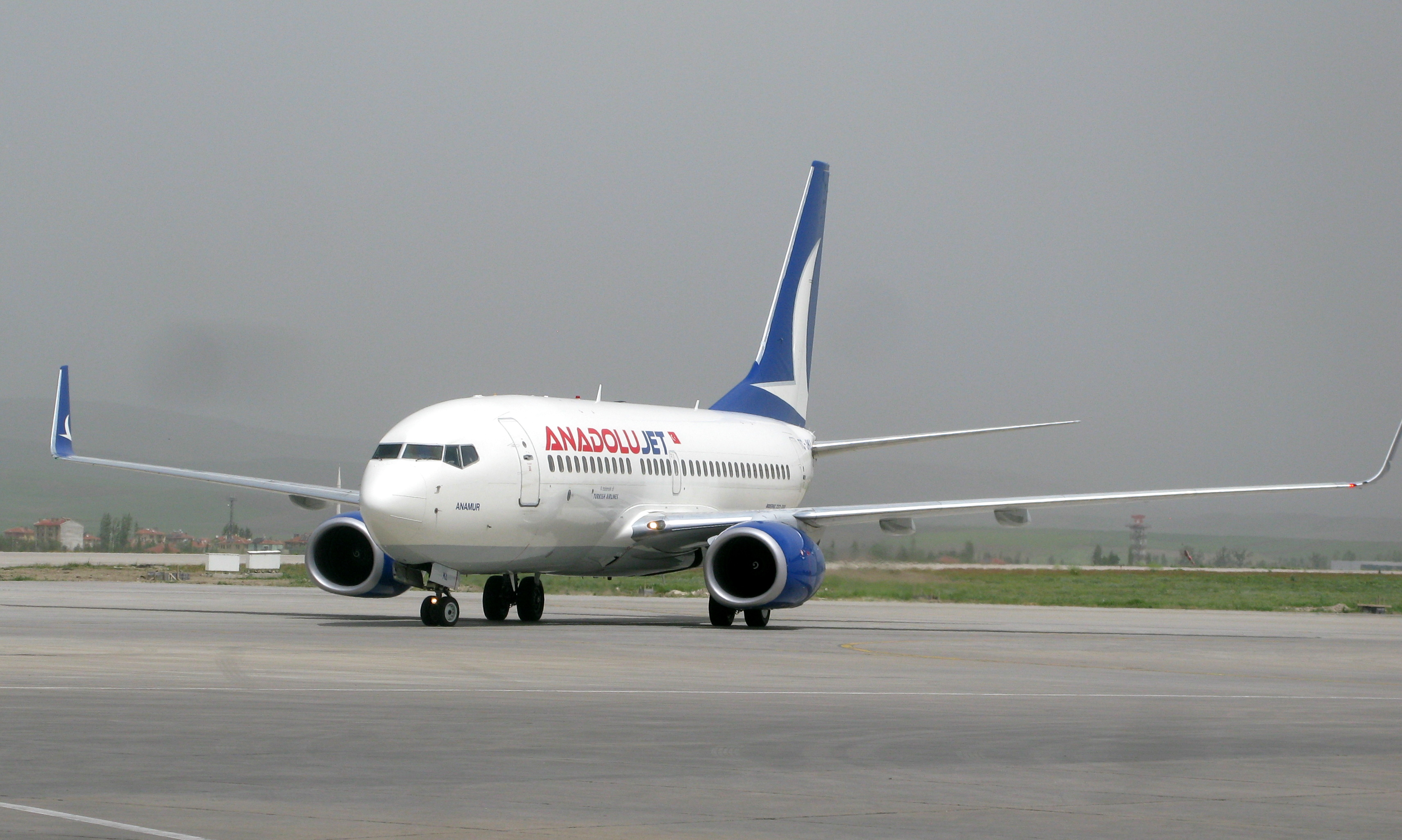 Plane of Anadolujet heading to the parking position at Esenboğa Havalimanı, Ankara, Turkey